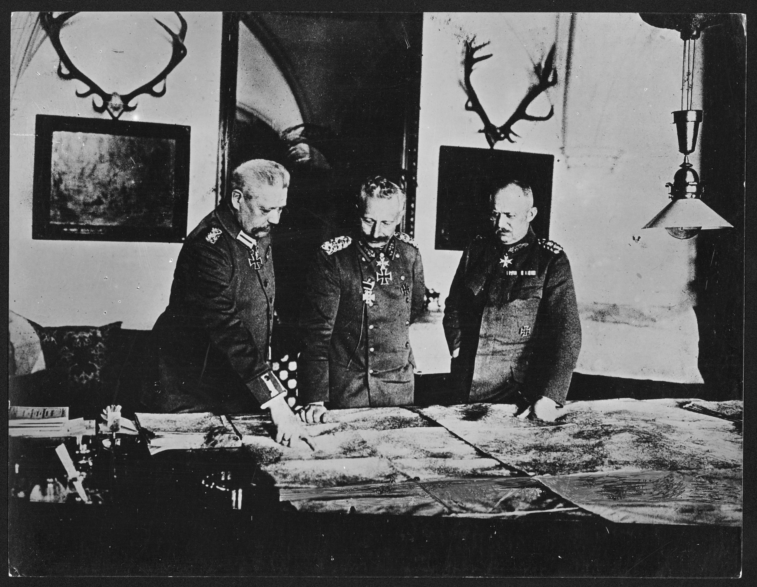 German commanders, Spa, Belgium, during World War I. This is a fascinating photograph showing the war from the German perspective. It shows Kaiser Wilhelm II (1859-1941), Emperor of Germany between 1888 and 1918, flanked by two of his commanders, to the left Field Marshal Paul von Hindenburg (1847-1934 ) and on the right General Erich von Ludendorff (1865-1937). They are discussing a map placed on a table in their headquarters' building in the Belgian town of Spa. Hindenburg and Ludendorff had been successful in the Eastern Front, before being transferred to the Western Front in 1916. The image portrays the three men as calm and in control, the wise leaders of their troops. The fact that this photograph was in the possession of a German officer suggests that it may have been given out by the leadership as propaganda within the German army. [Original reads: 'Copy of a photograph taken from a German Officer showing Kaiser, Hindenburg and Ludendorff at G.H.Q., Spa.']